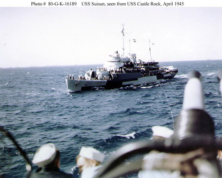 USS Suisun, as seen from the USS Castle Rock during April 1945.